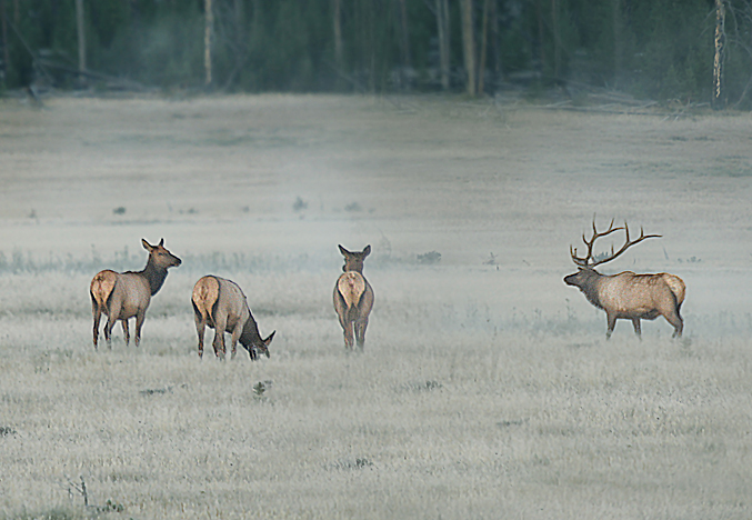 Bull Elk herd at the crack of dawn between Noris and Canyon village